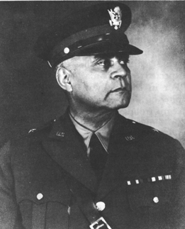 Brig. Gen. Benjamin O. Davis, Sr. in uniform